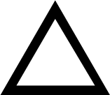 alchemists symbol for "fire" Unicode: U+1F702 🜂